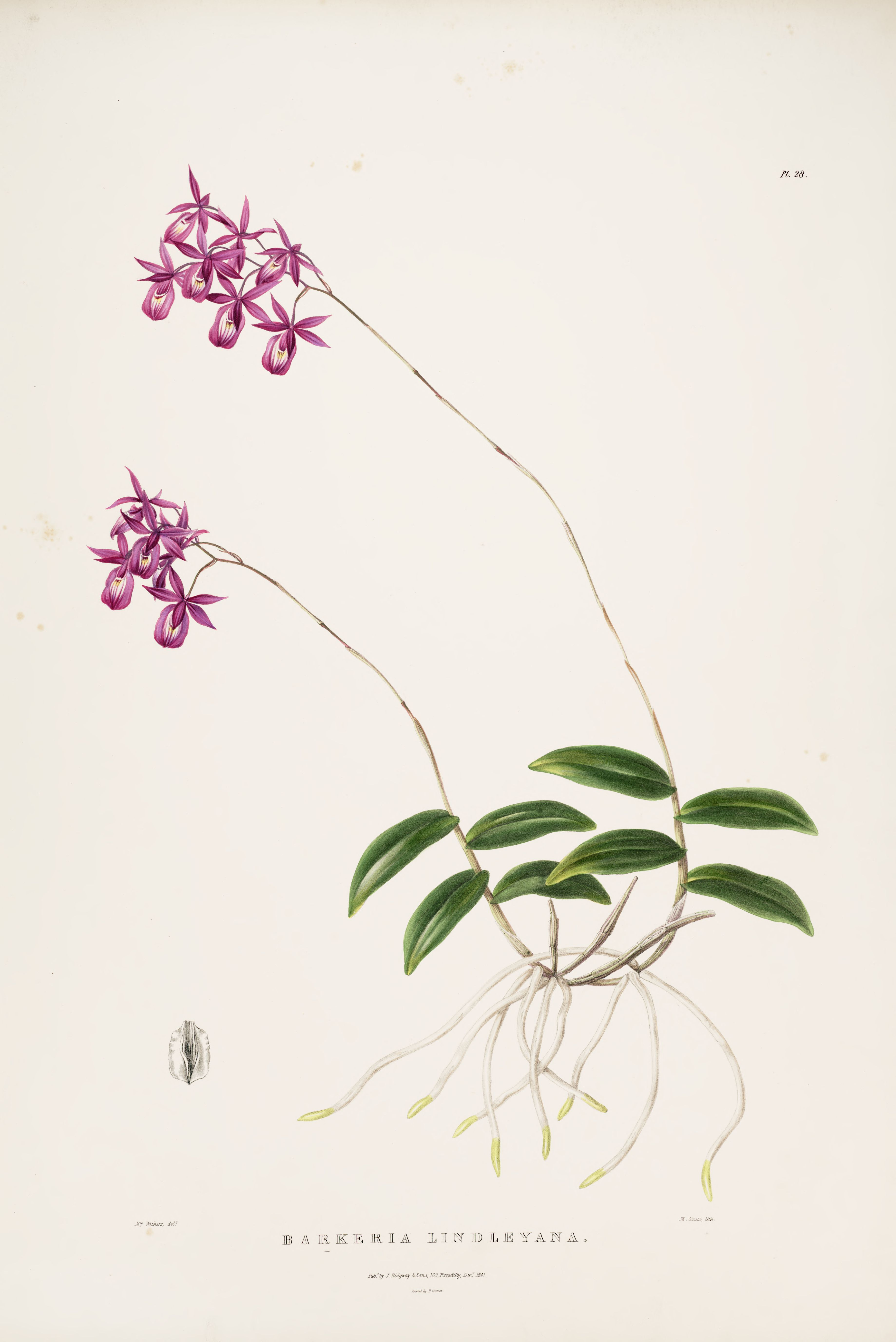 Illustration of Barkeria lindleyana